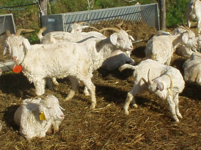 Shorn Angora goats.